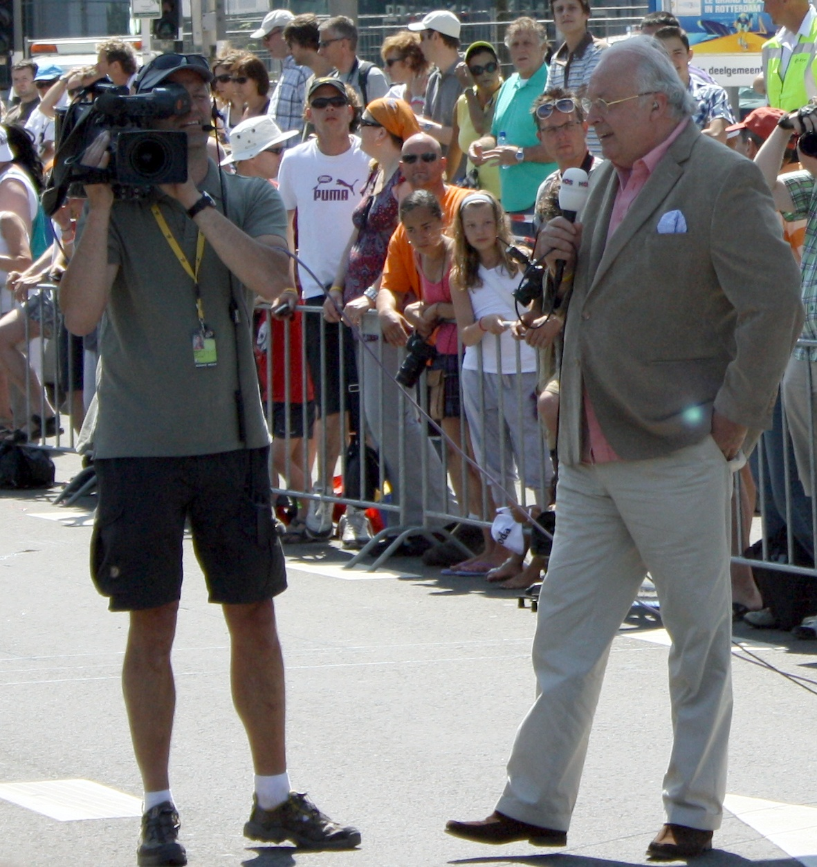 Mart Smeets with cameraman Peter Bakker at the start of the first stage of the 2010 Tour de France in Rotterdam